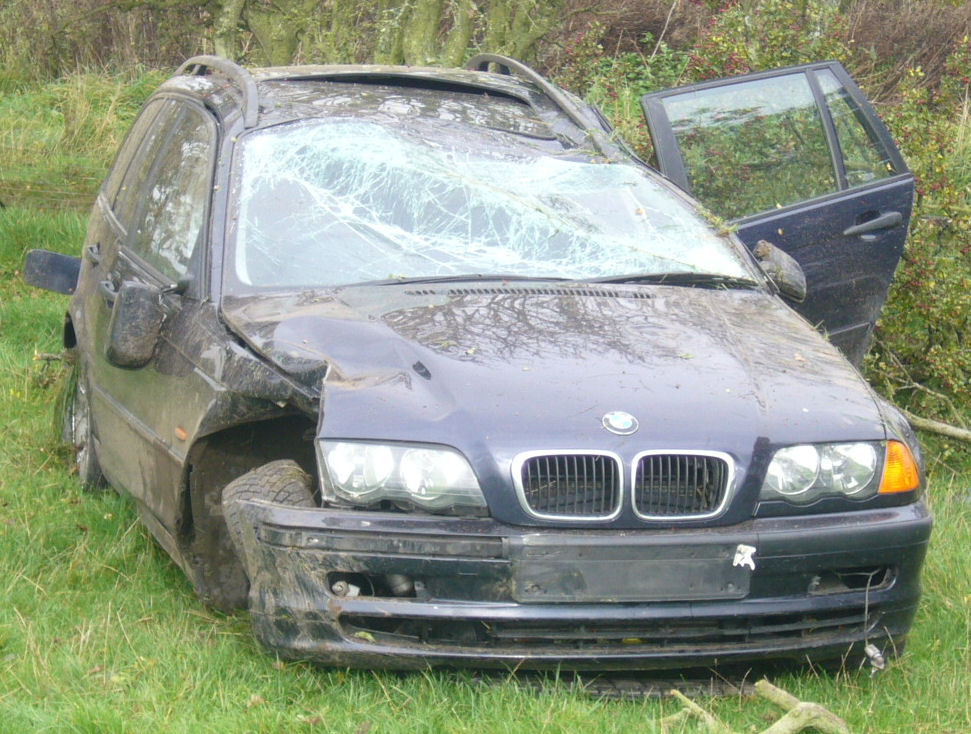 Somewhat crashed BMW 3 series estate, to illustrate the Write-off article. Photo copyright Tagishsimon, 20-10-2006